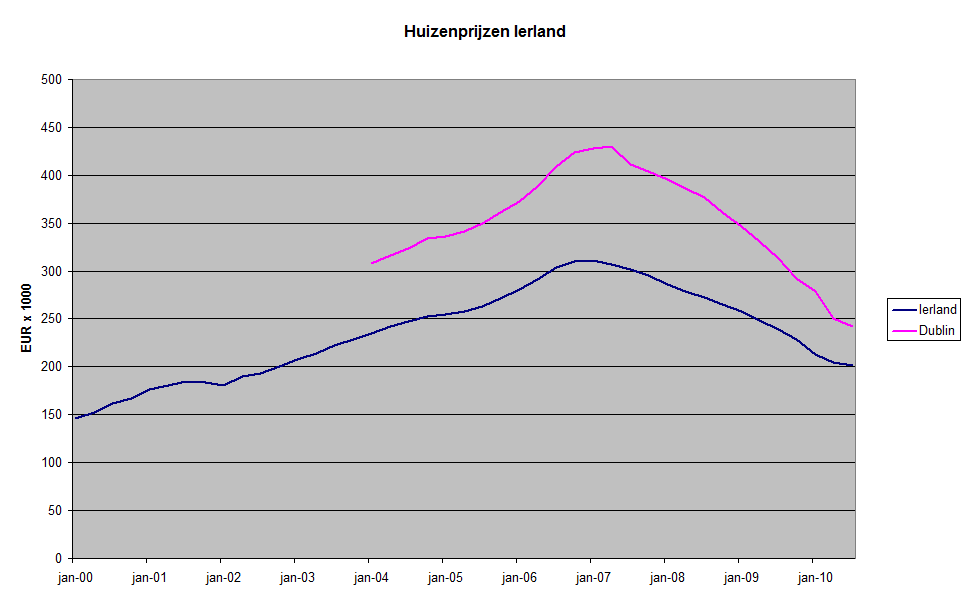 Development of house prices in Ireland and in Dublin in euro's, made using data supplied by Permanent TSB Bank, . Used on Kredietcrisis. If you would like this graph with captions in another language, drop me a line. Please note: This graph has not been updated since 2010Q2 as Permament TSB has not updated its data. For more recent developments, please use File:Irish house prices Central Statistics Office.png (which, however, starts at 2005 and uses index numbers).